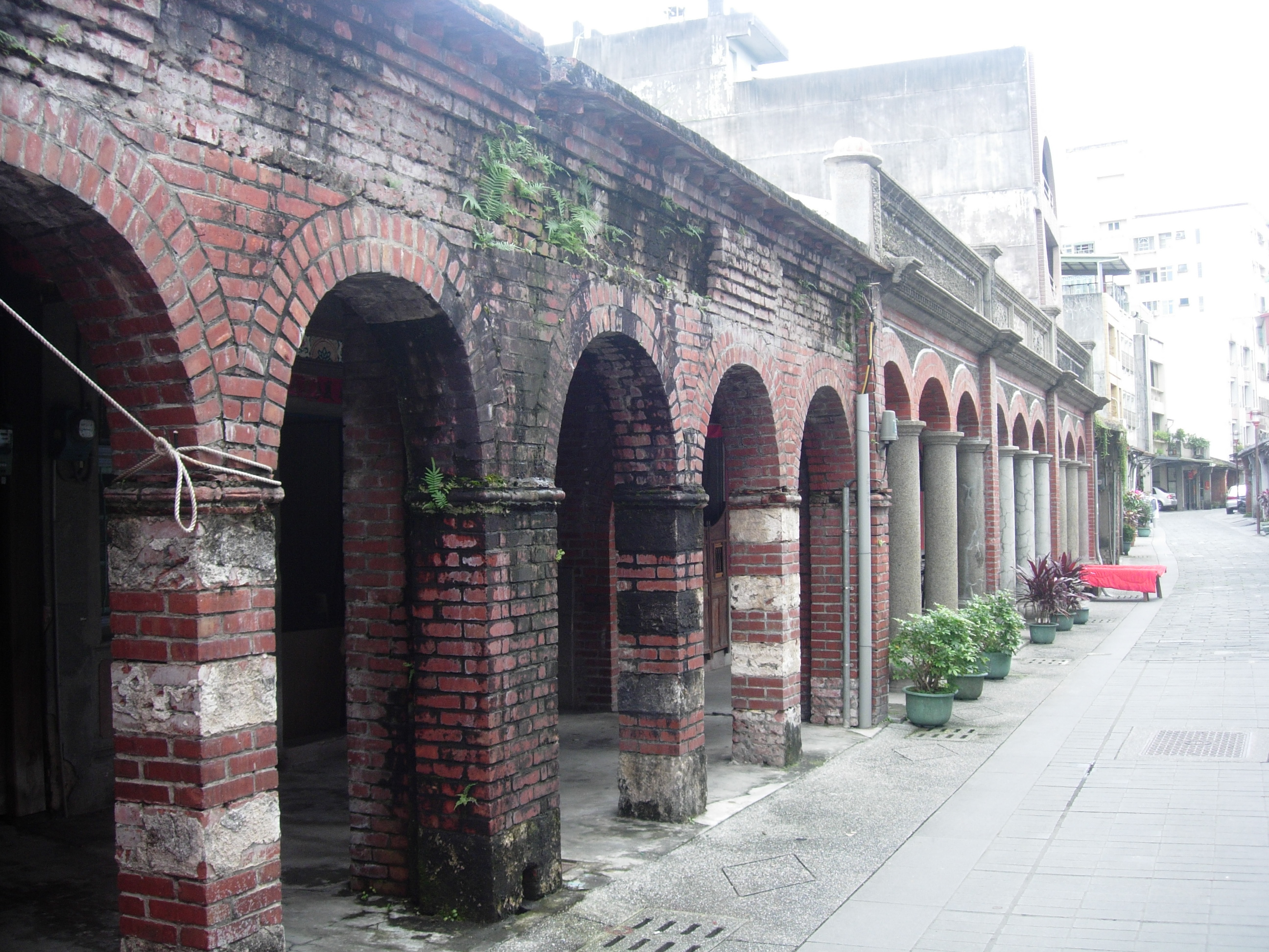 Toucheng Old Street, Toucheng Township, Yilan County, Taiwan中文（台灣）: 頭城老街南段一景